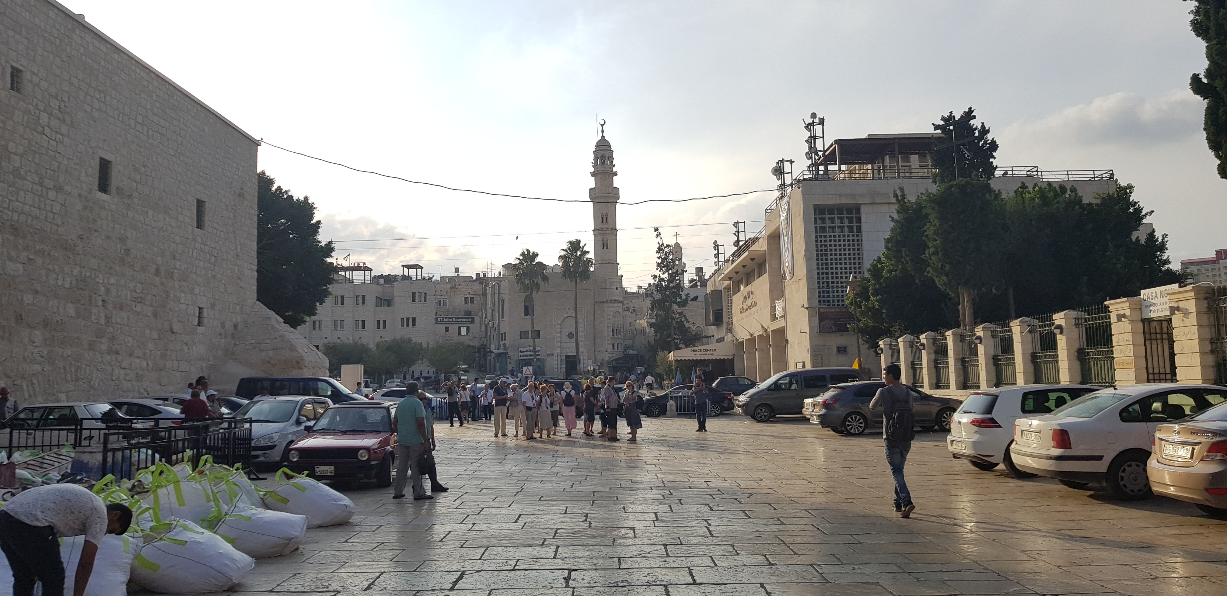 Omar bin al-Khattab Mosque from the Church of the Nativity Square in Bethlehem.